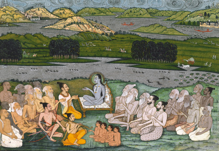 "Shri Sukdevji Preaching to a Concourse of Sadhus. Opaque watercolour on paper. Rajasthan, India"